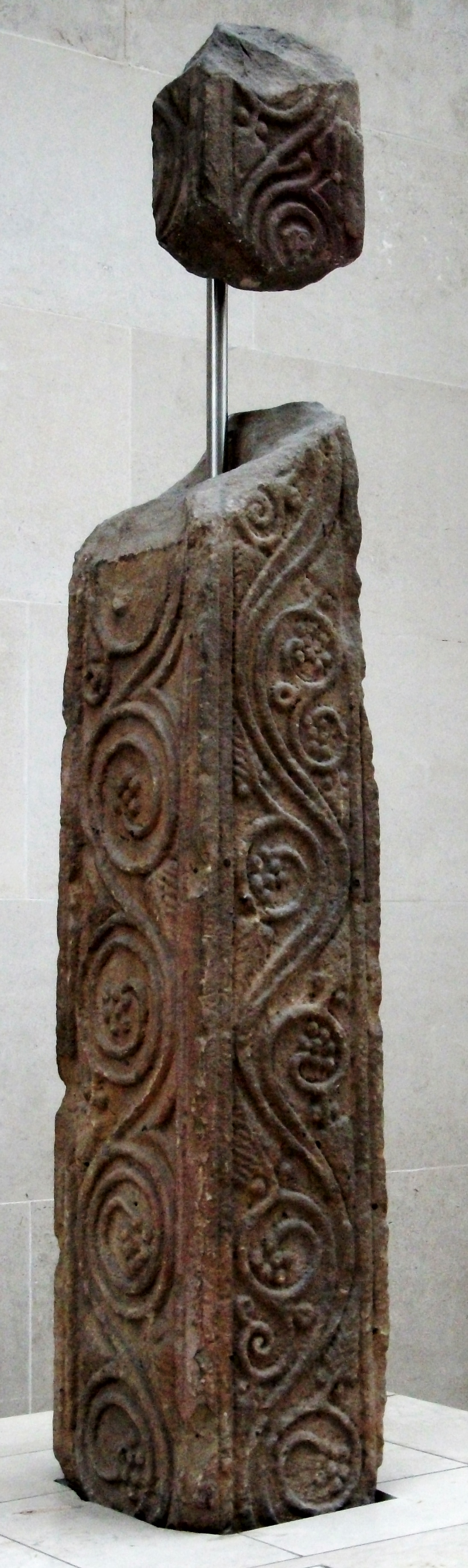 Anglo-Saxon cross shaft in the Great Court at the British Museum. The Lowther Cross from Lowther, Westmorland. 8th or 9th century